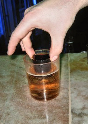 A Jagerbomb I had at Billboard on Russel St. Melbourne. That's my hand, and my girlfriend took the picture, so its entirely my property.